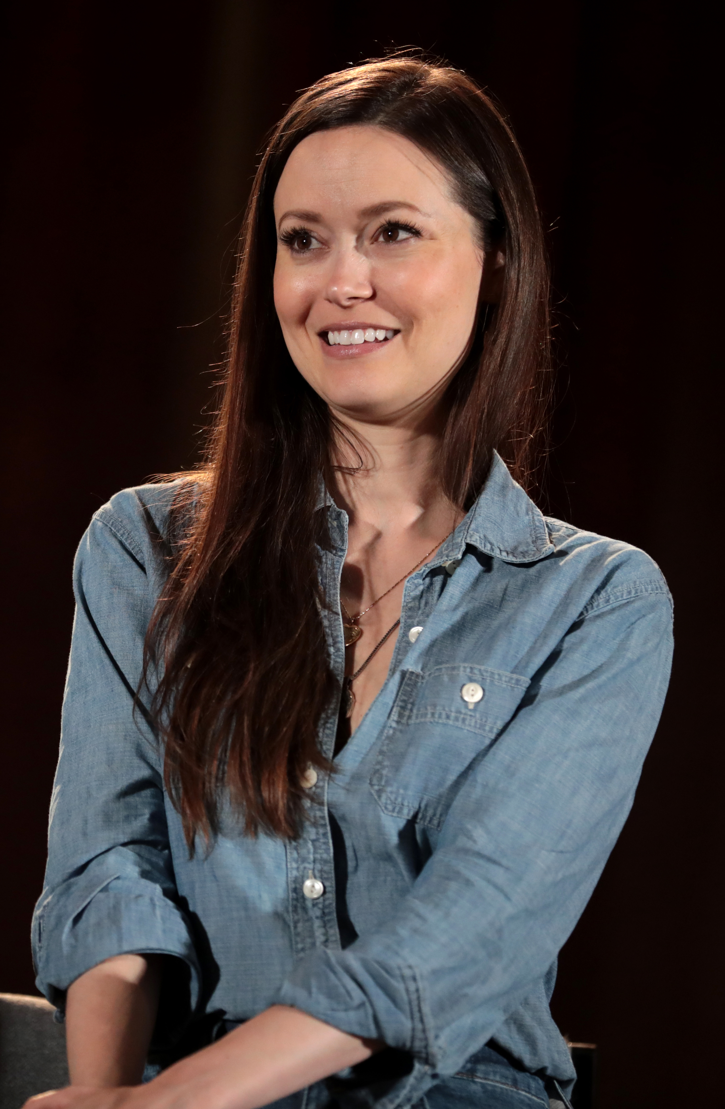 Summer Glau speaking at the 2019 Phoenix Fan Fusion in Phoenix, Arizona.